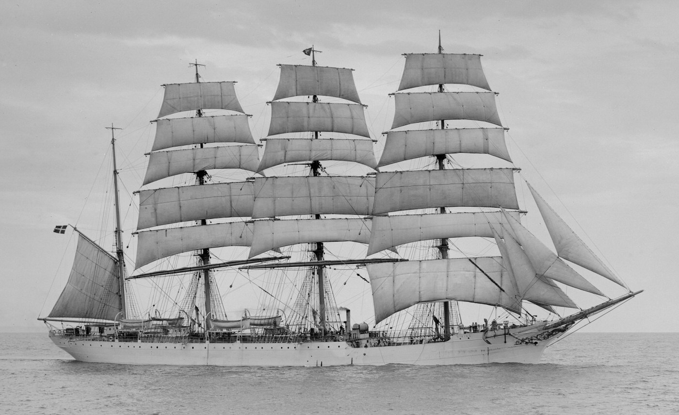 Viking, under the Dannish flag.